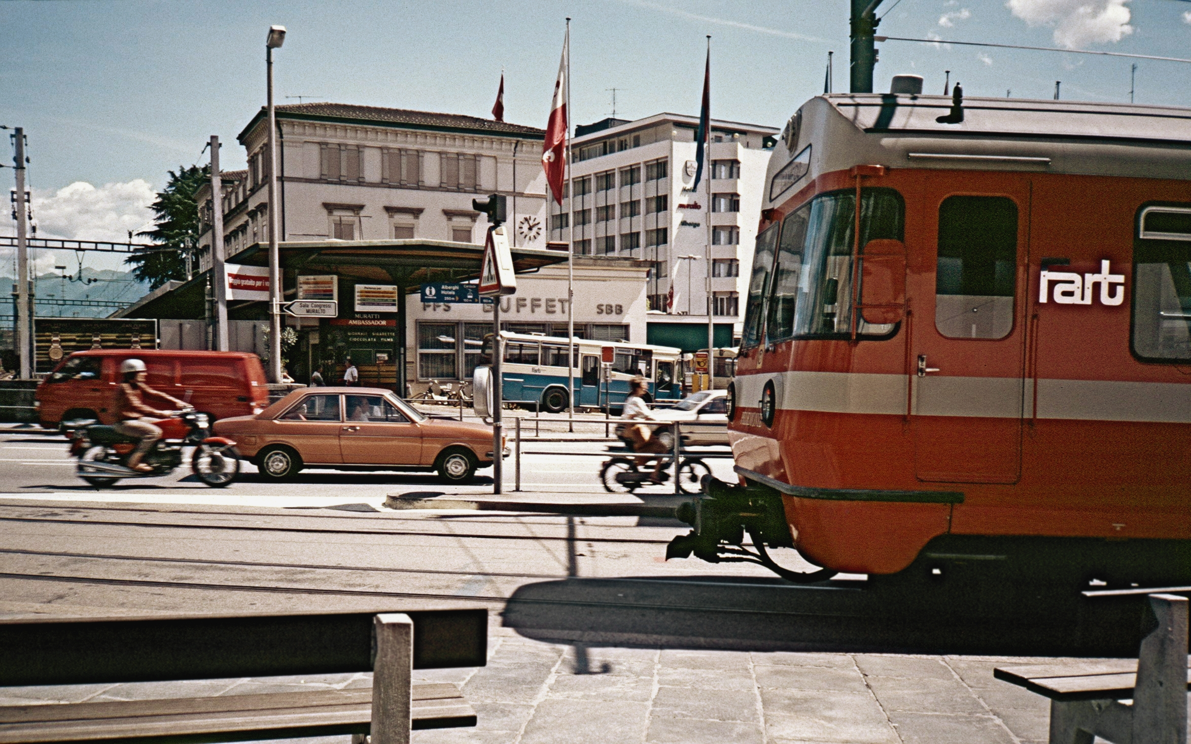 FART at Locarno station